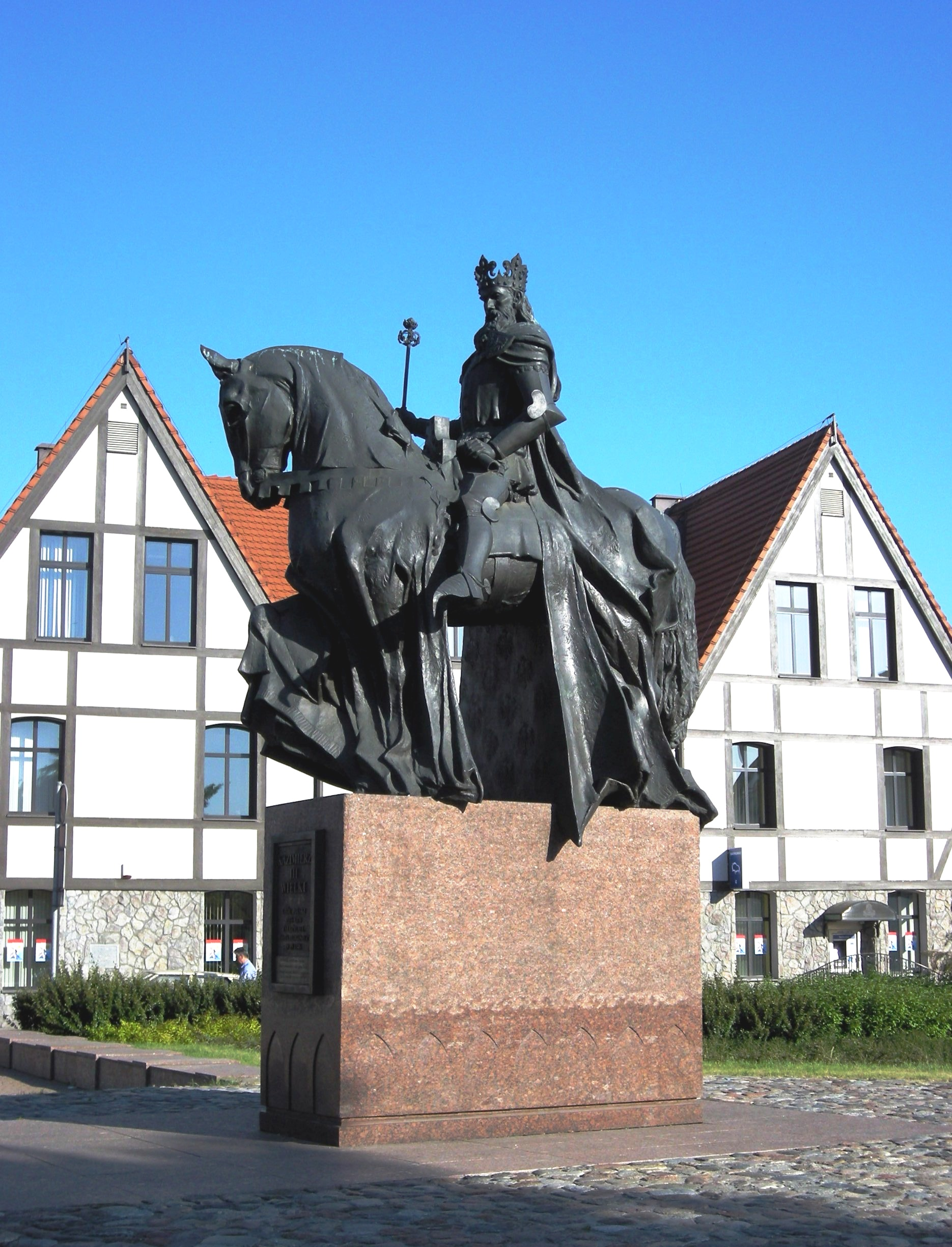 The Casimir III of Poland monument in Bydgoszcz